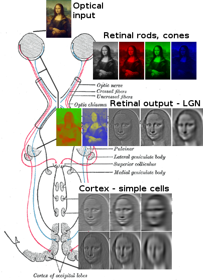 Image analysis of Mona Lisa by the human Visual System, up to simple cells in visual cortex. Simplified.